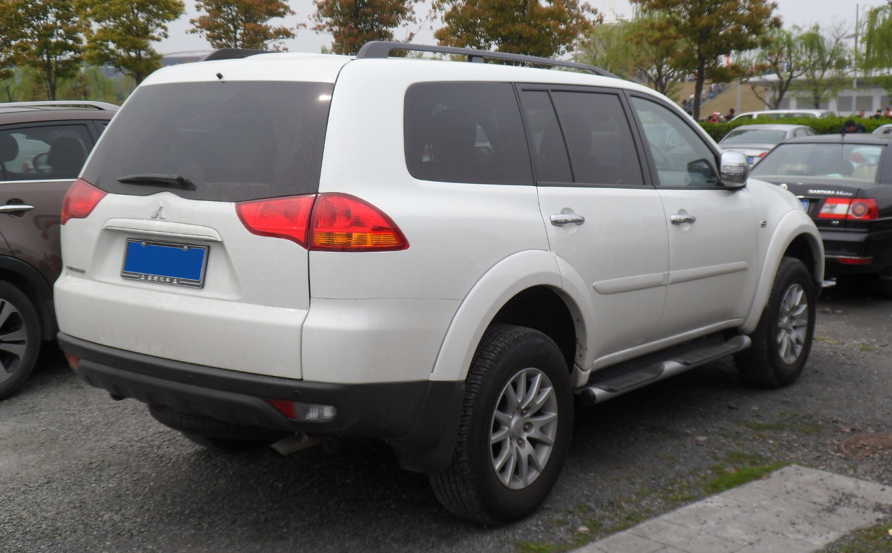 Mitsubishi Pajero Sport II photographed in Anting, Shanghai municipality, China.